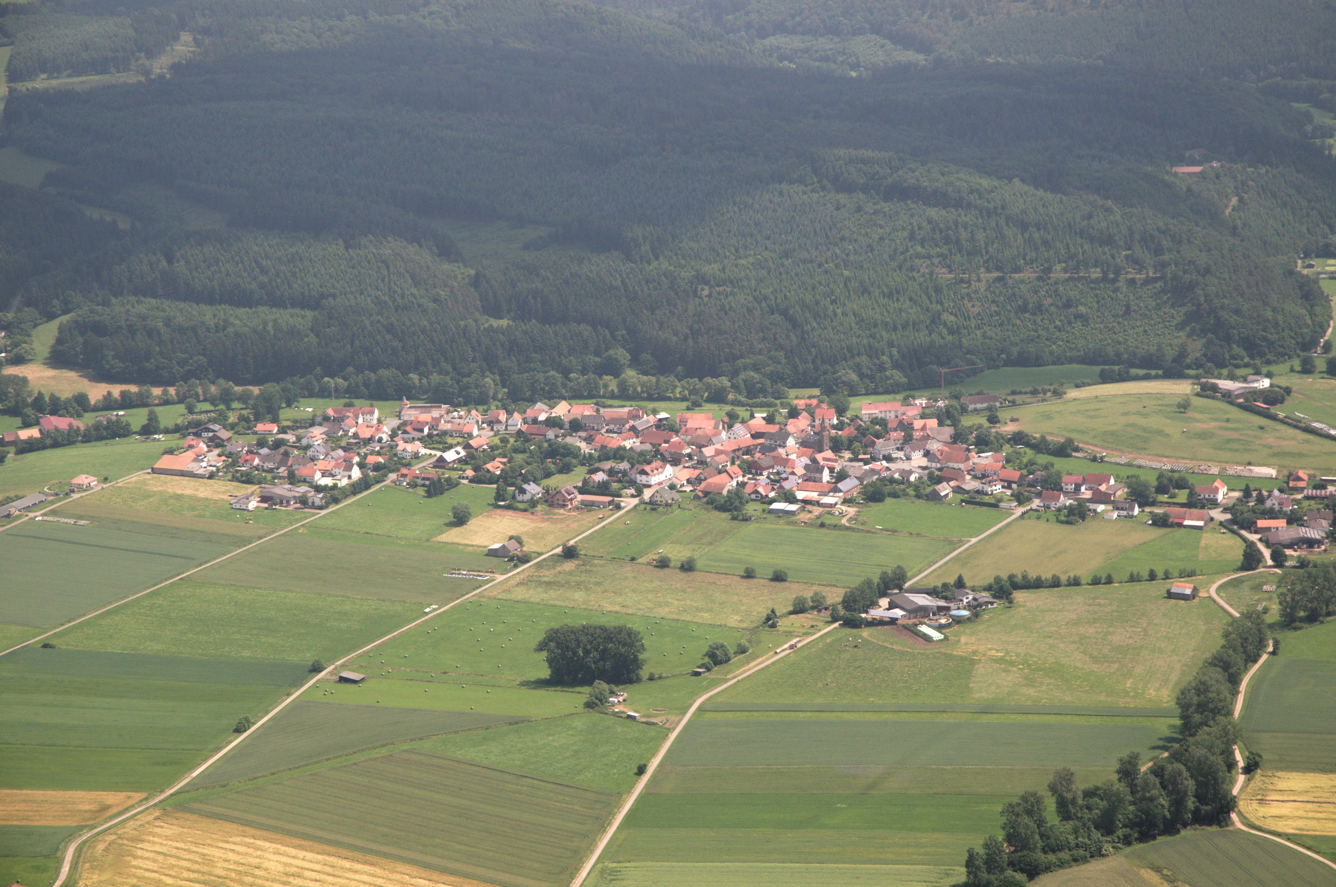 Fotoflug Sauerland-Ost, Lichtenfels-Neukirchen; Blickrichtung Osten The making of this document was supported by the Community-Budget of Wikimedia Germany.